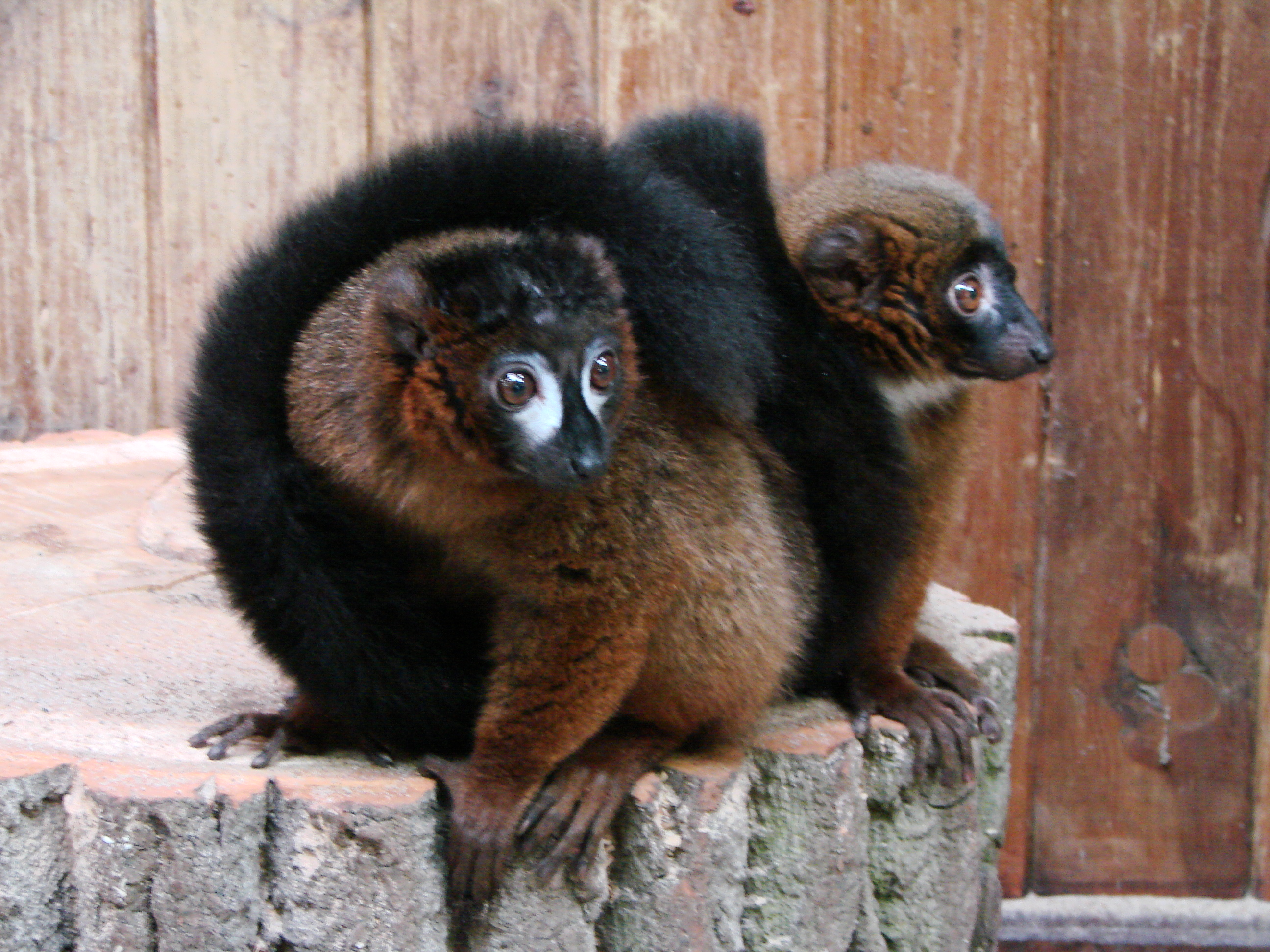 Animal species: Red-bellied Lemur (Wrocław zoo)